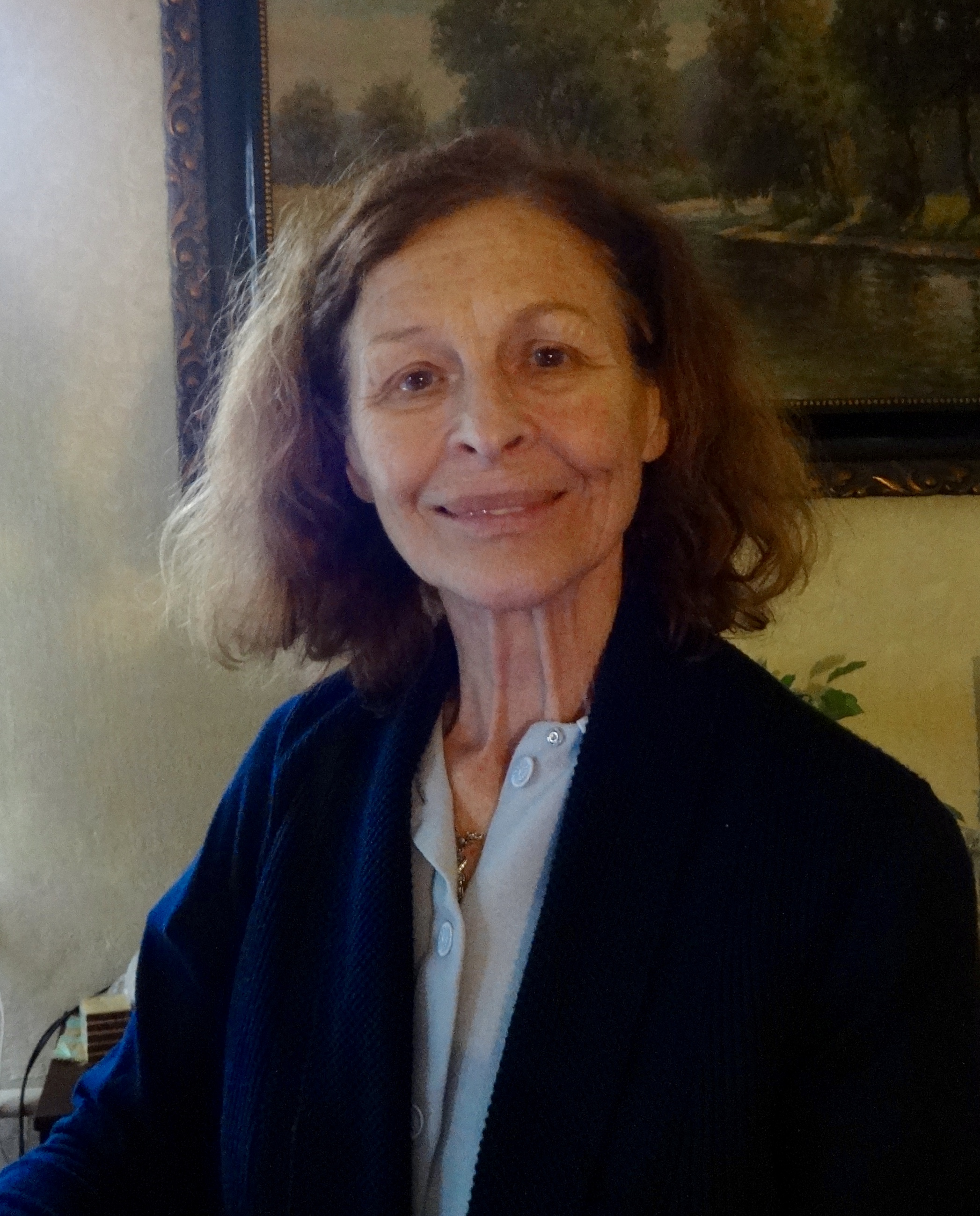 Jana Andrsová in Hradec Králové, on the set of a music video in which she makes a cameo (2016)